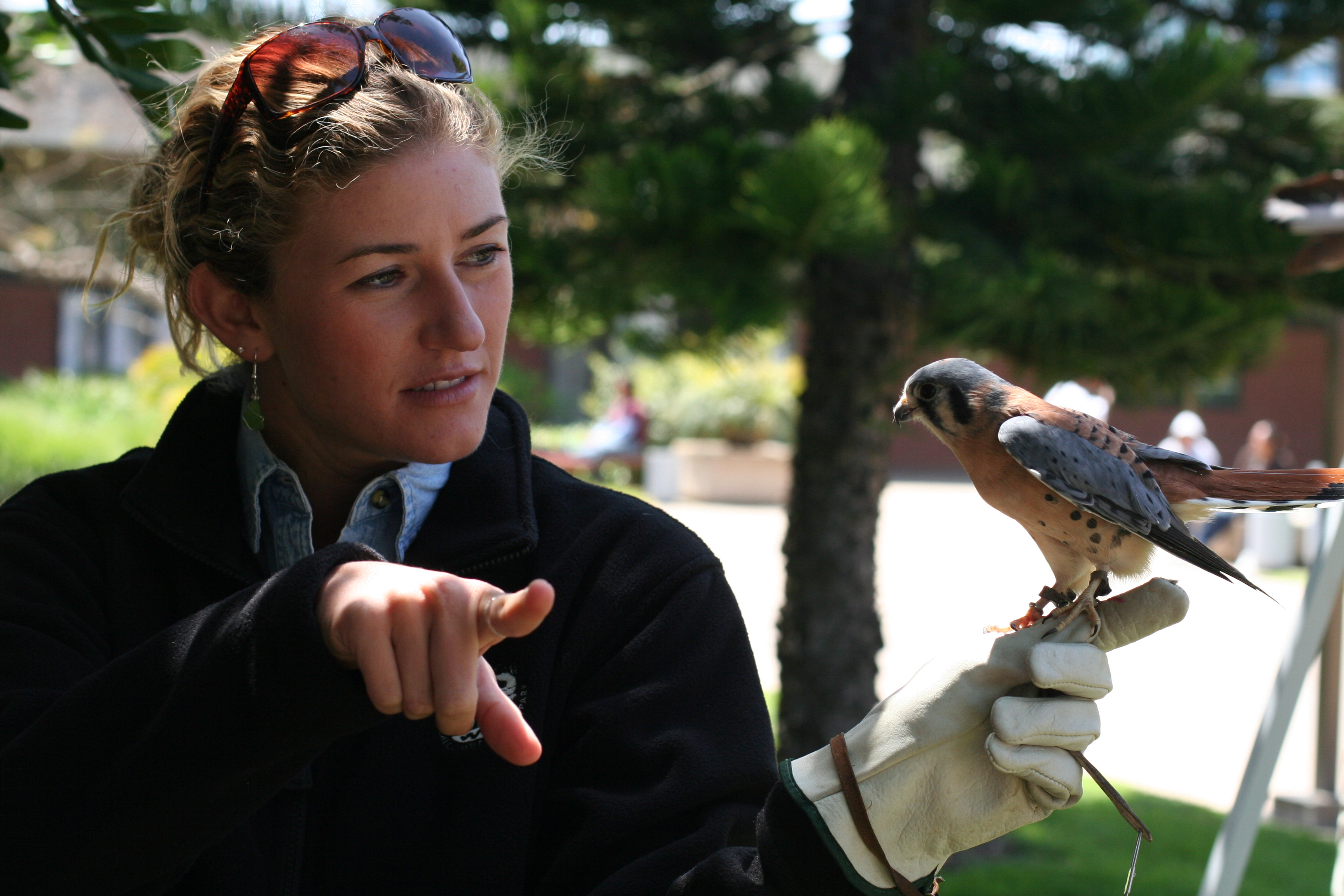 Earth Day 2007 at San Diego City College - exhibit booth from the San Diego Zoo - zoo handler with American Kestrel.